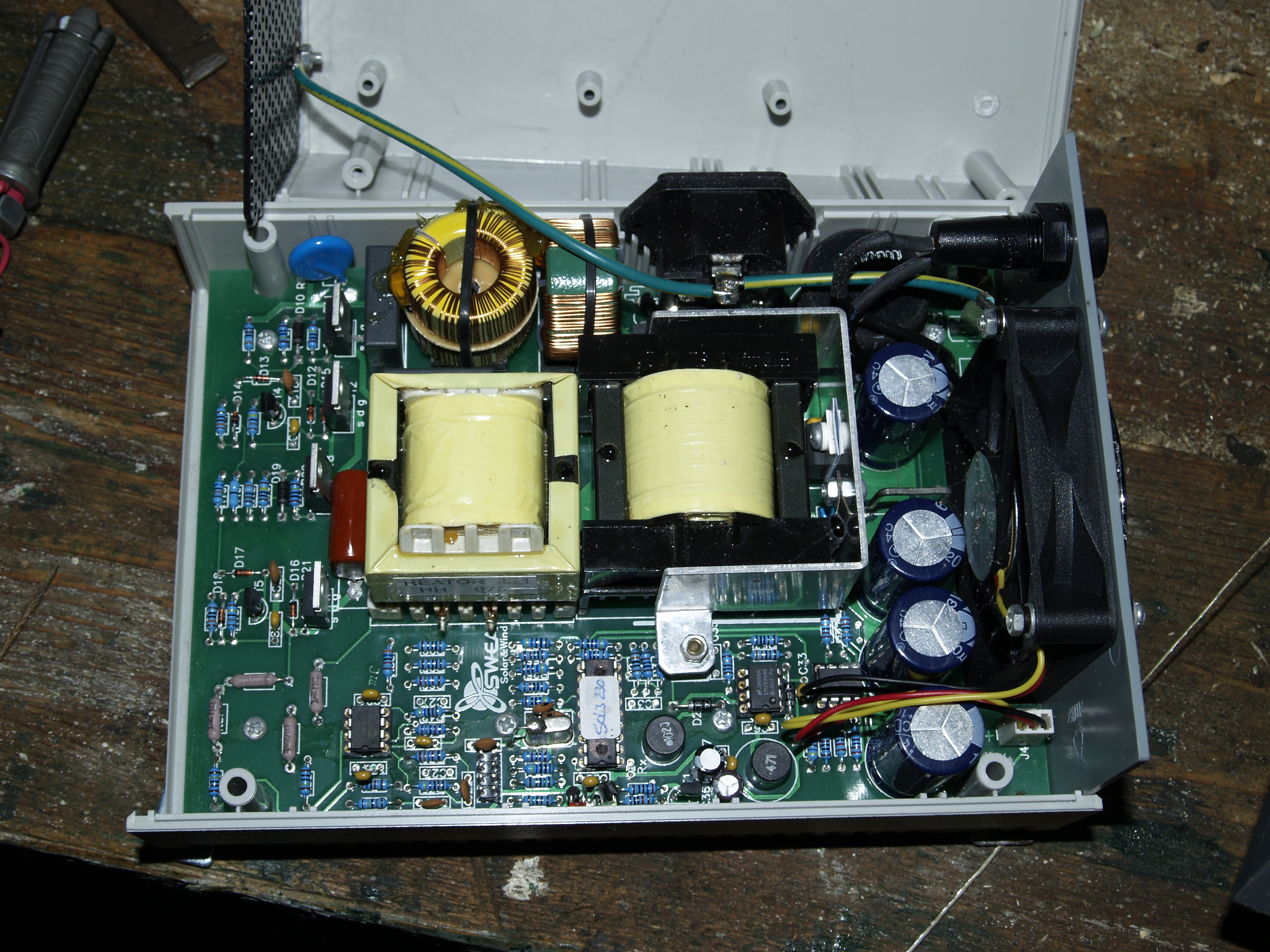 Inside of a SWEA 250W Grid Tie inverter